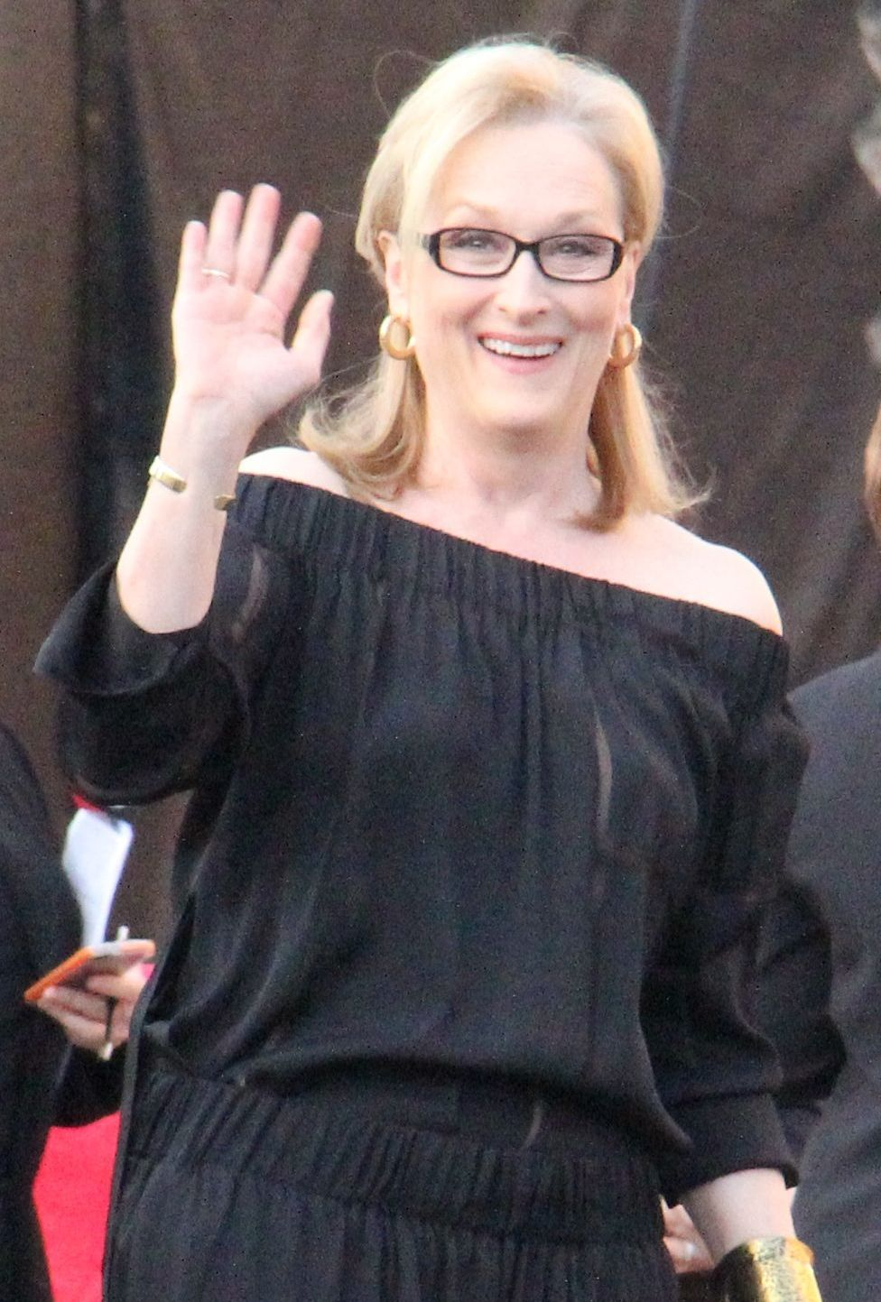 Meryl Streep At The 2014 SAG Awards